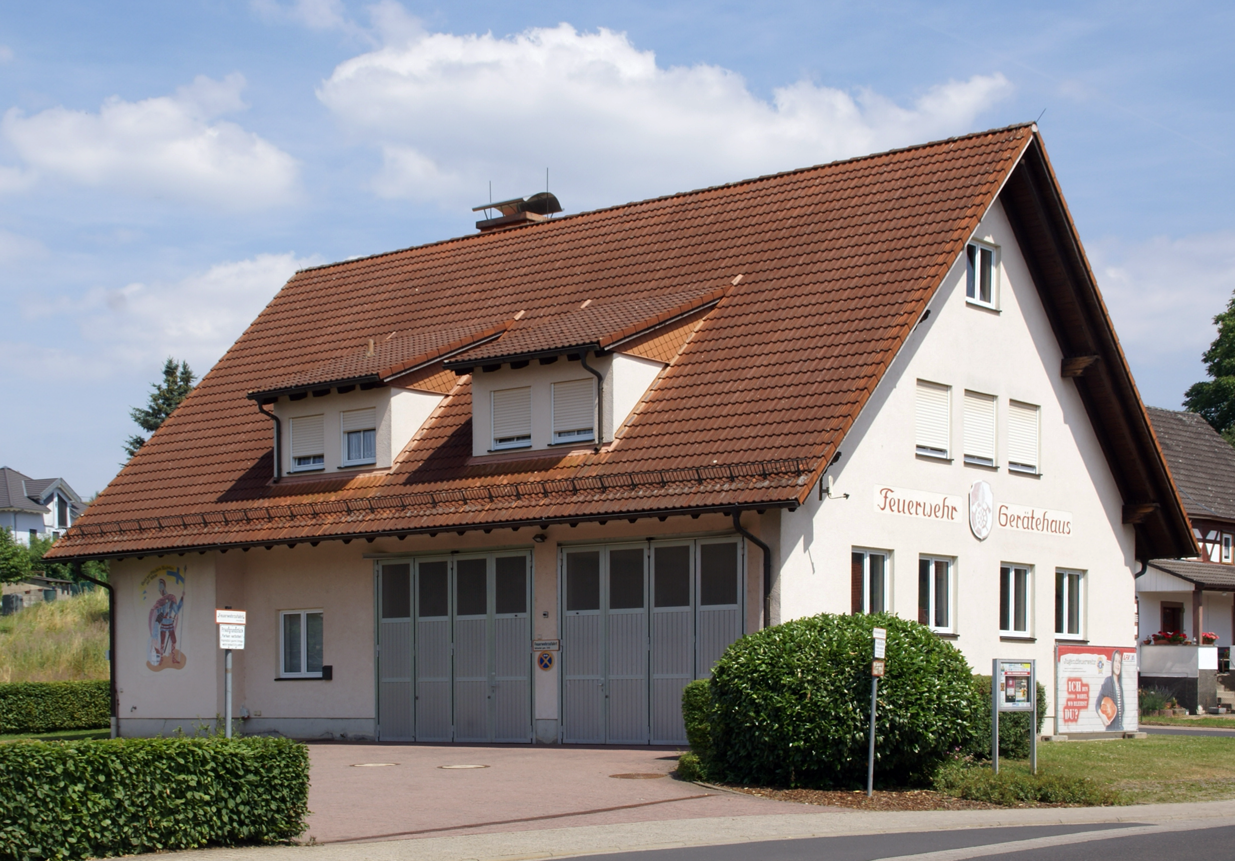 The fire department in Feldkahl